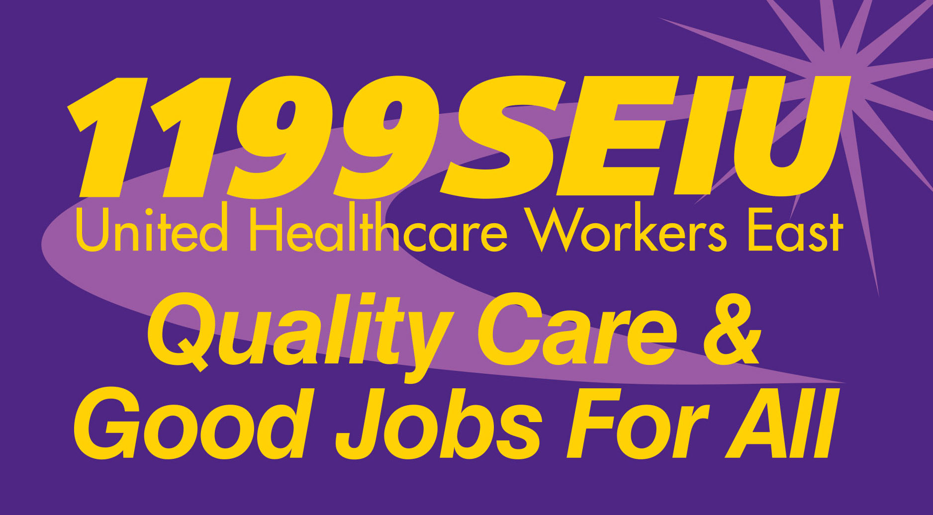 1199 SEIU Logo